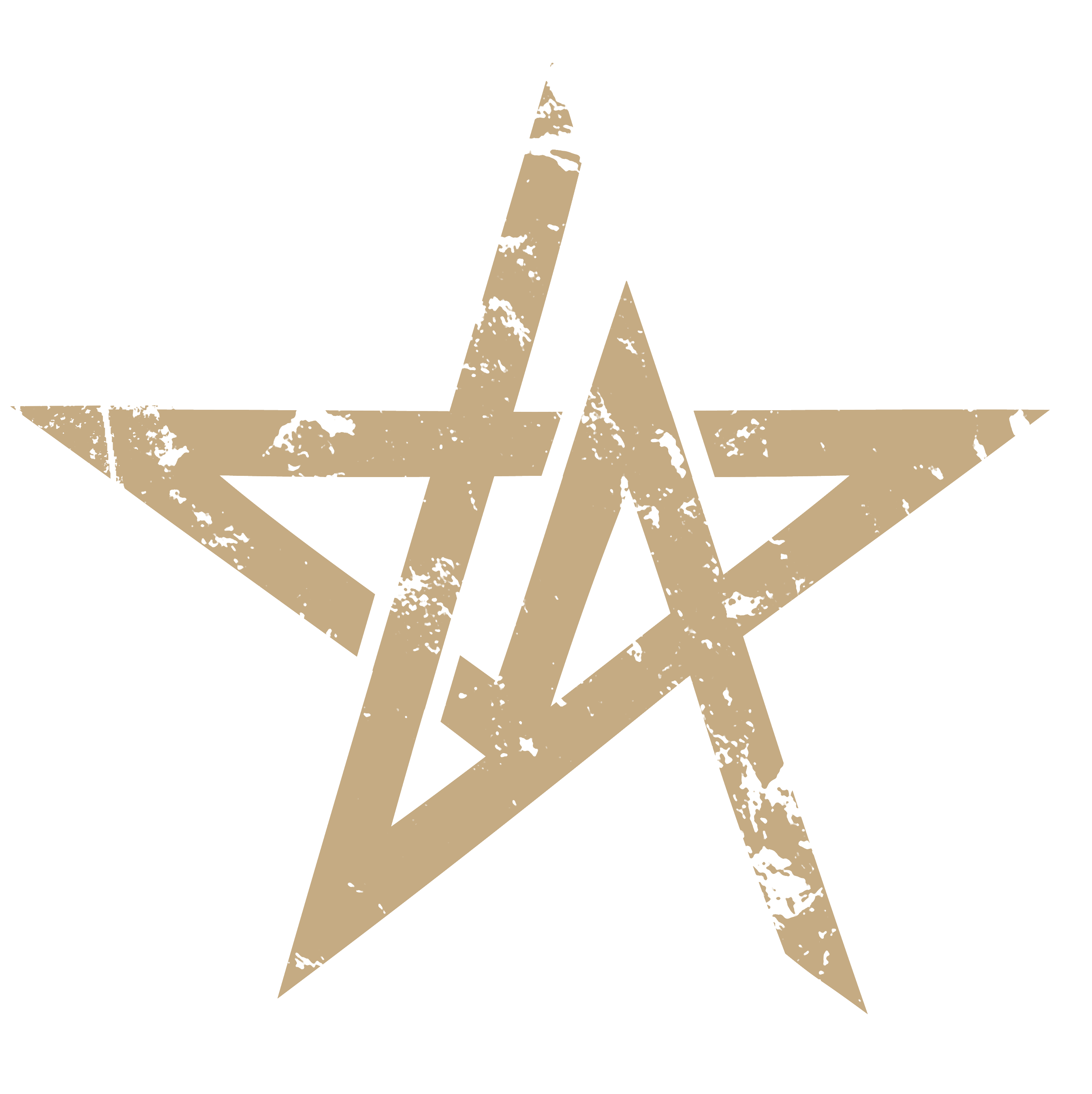 THE ARRS logo